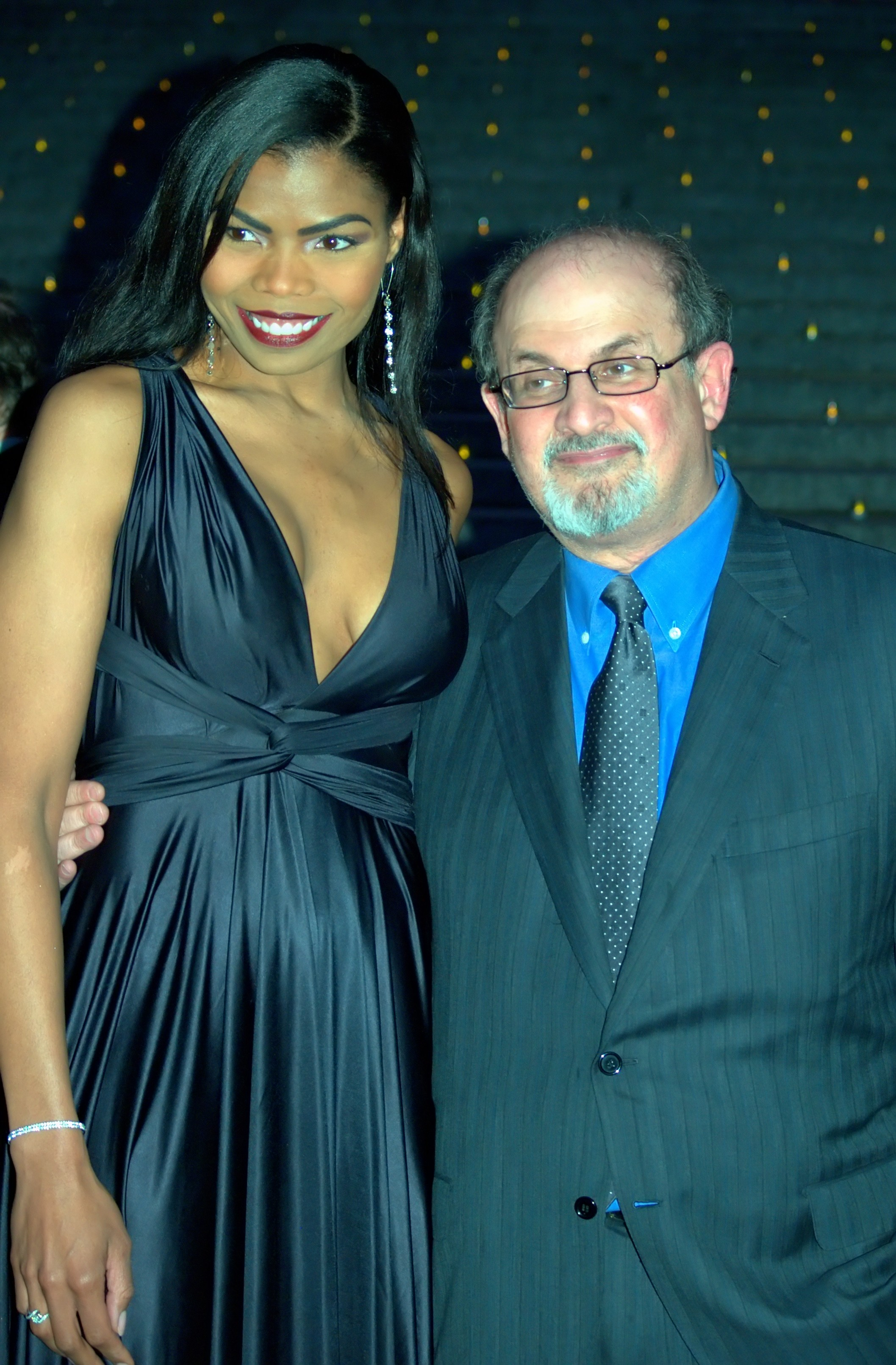 Actress Pia Glenn and Salman Rushdie at the Vanity Fair party to kick of the 2009 Tribeca Film Festival.